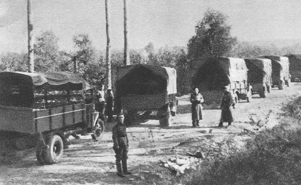 Death transport with empty trucks back to Warsaw from place of mass executions in Palmiry. Between the years 1939 and 1941 approx. 1700 Poles and Jews were killed by Nazi-Germans in Palmiry. This photo was obtained by Polish resistance movement.